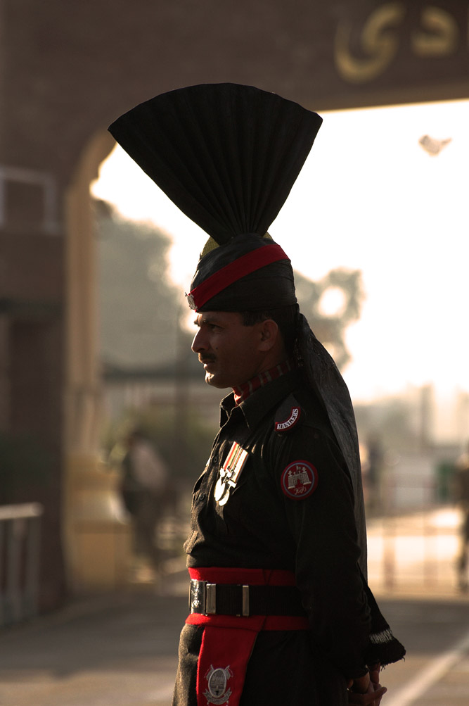 A tall robust Ranger at the Joint Check Post between India and Pakistan at Wagah. The Border Closing Ceremony at sunset is one of the most spectacular display of drill. The border is manned by the Border Security Force (BSF) on the Indian Side and by the Rangers on the Pak side. Though apparently unfriendly and even a little bellicose, both Forces display surprising unity and timing in the drill. Actually, the tradition started after partition by both sides, which were manned by the same Punjab Police, in which I have had the honour to serve and contribute my small bit!